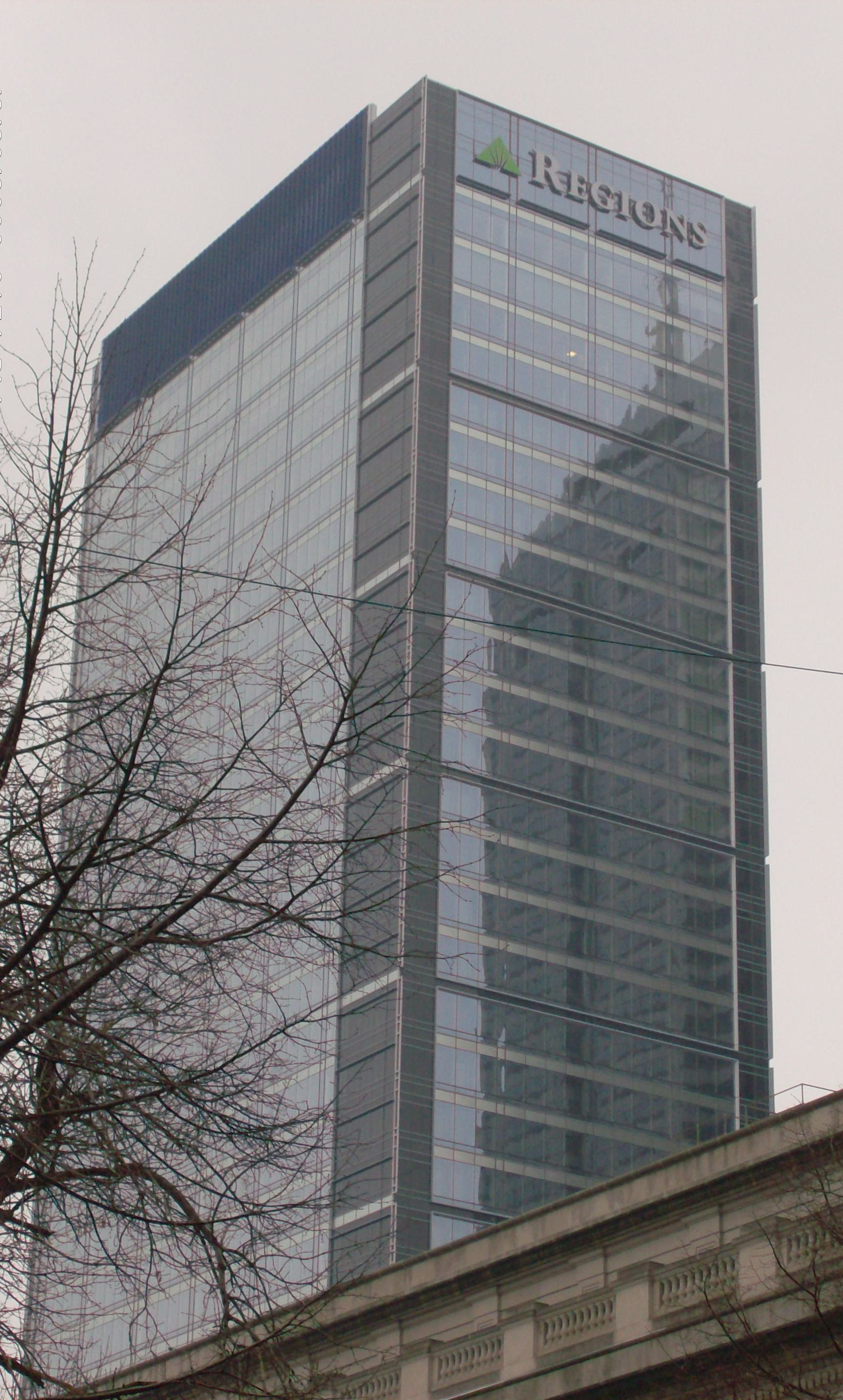 One Indiana Square with new Regions Bank logo a top the high-rise in December 2009.